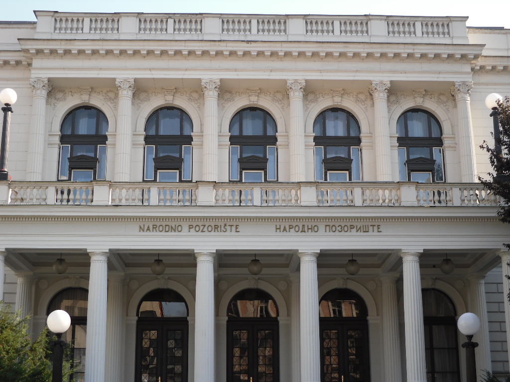 Sarajevo National Theatre